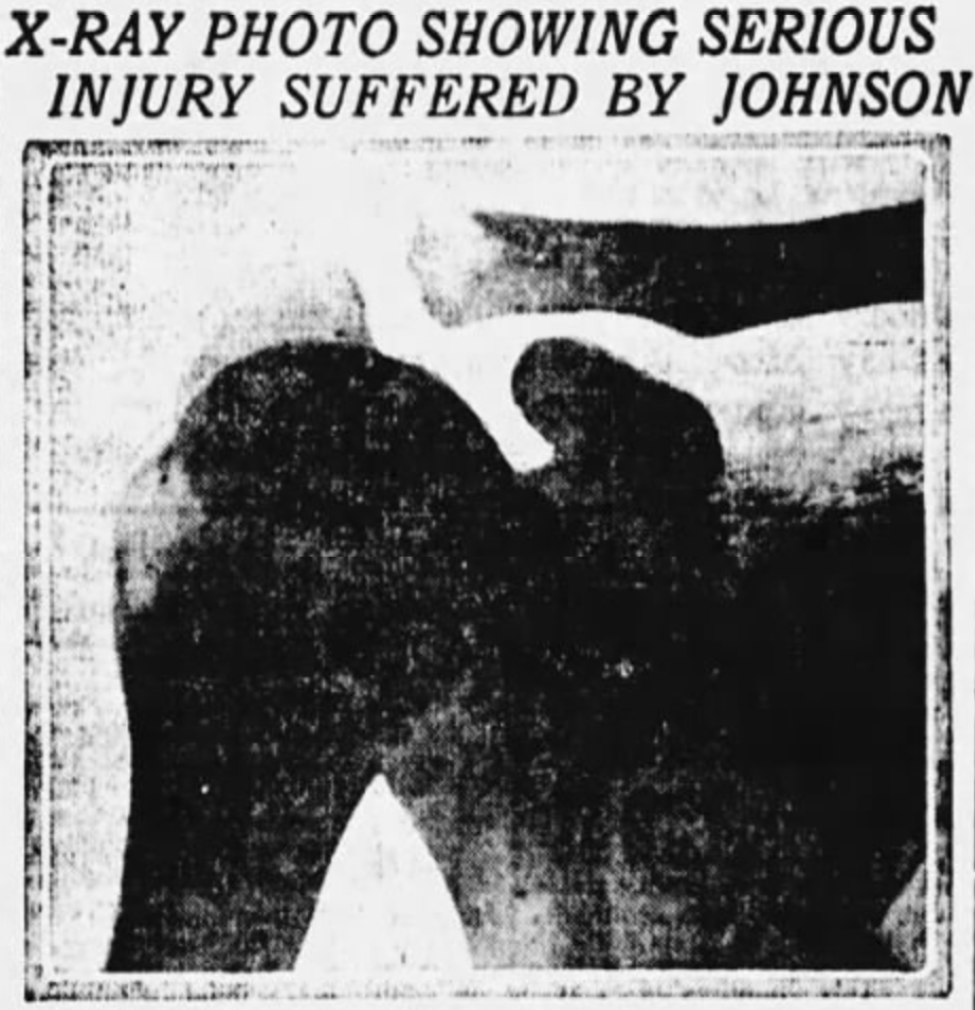 X-ray of torn shoulder of Canadian ice hockey player Ernie "Moose" Johnson in January 1918.